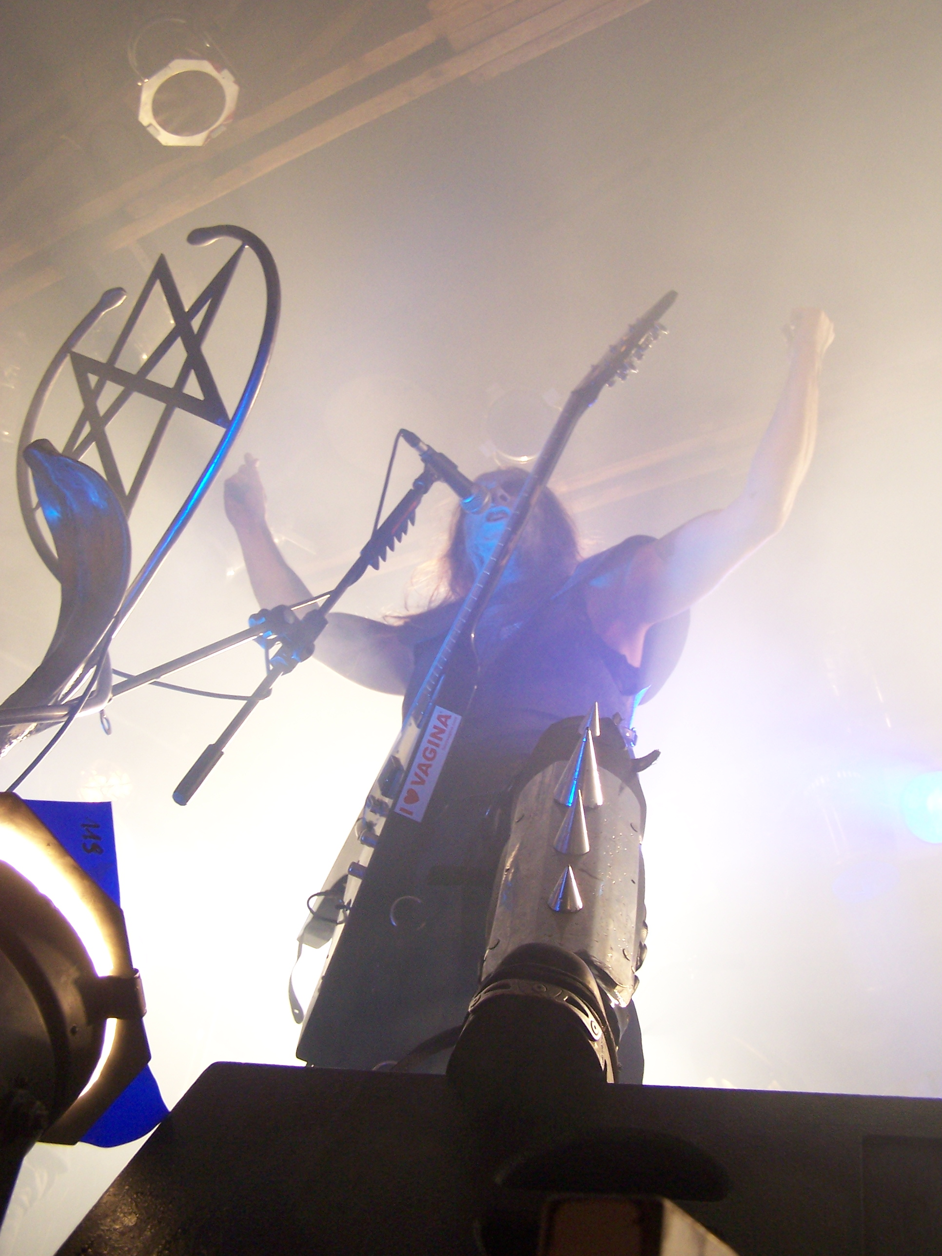 Adam Darski from Behemoth during Polish Apostasy Tour 2007 in Mega Club in Katowice.